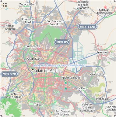 Greater Mexico City map